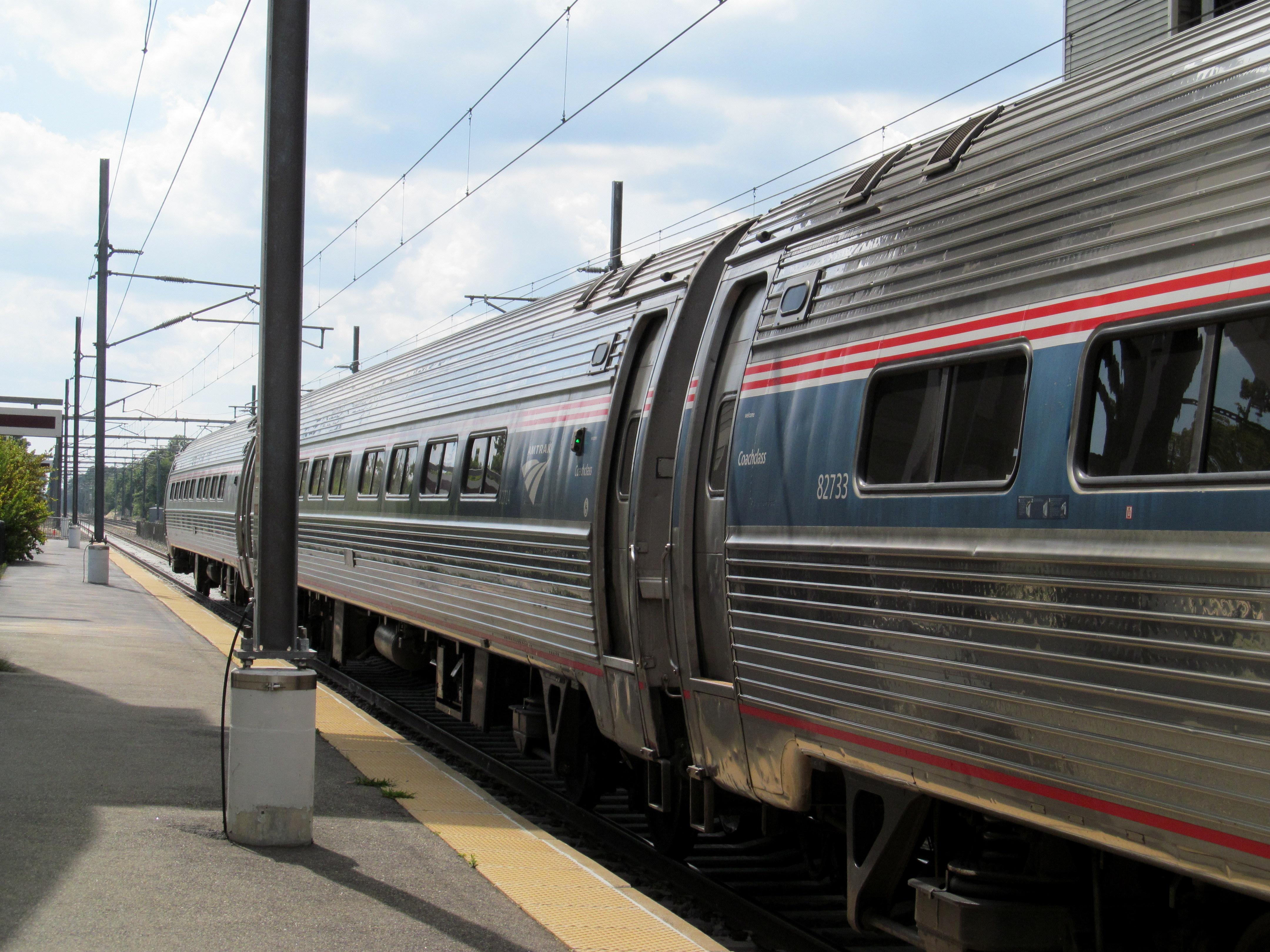 Amfleet passenger cars on the tail end of a Northeast Regional at Kingston